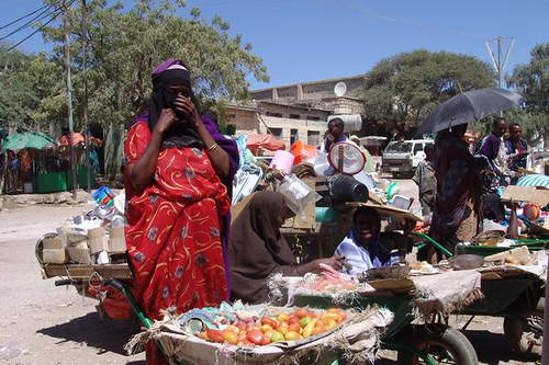 Hargeisa, Somalia. Image taken by Charles Fred on flickr. The creator has granted GFDL licensing and permission for use in the wikimedia project.